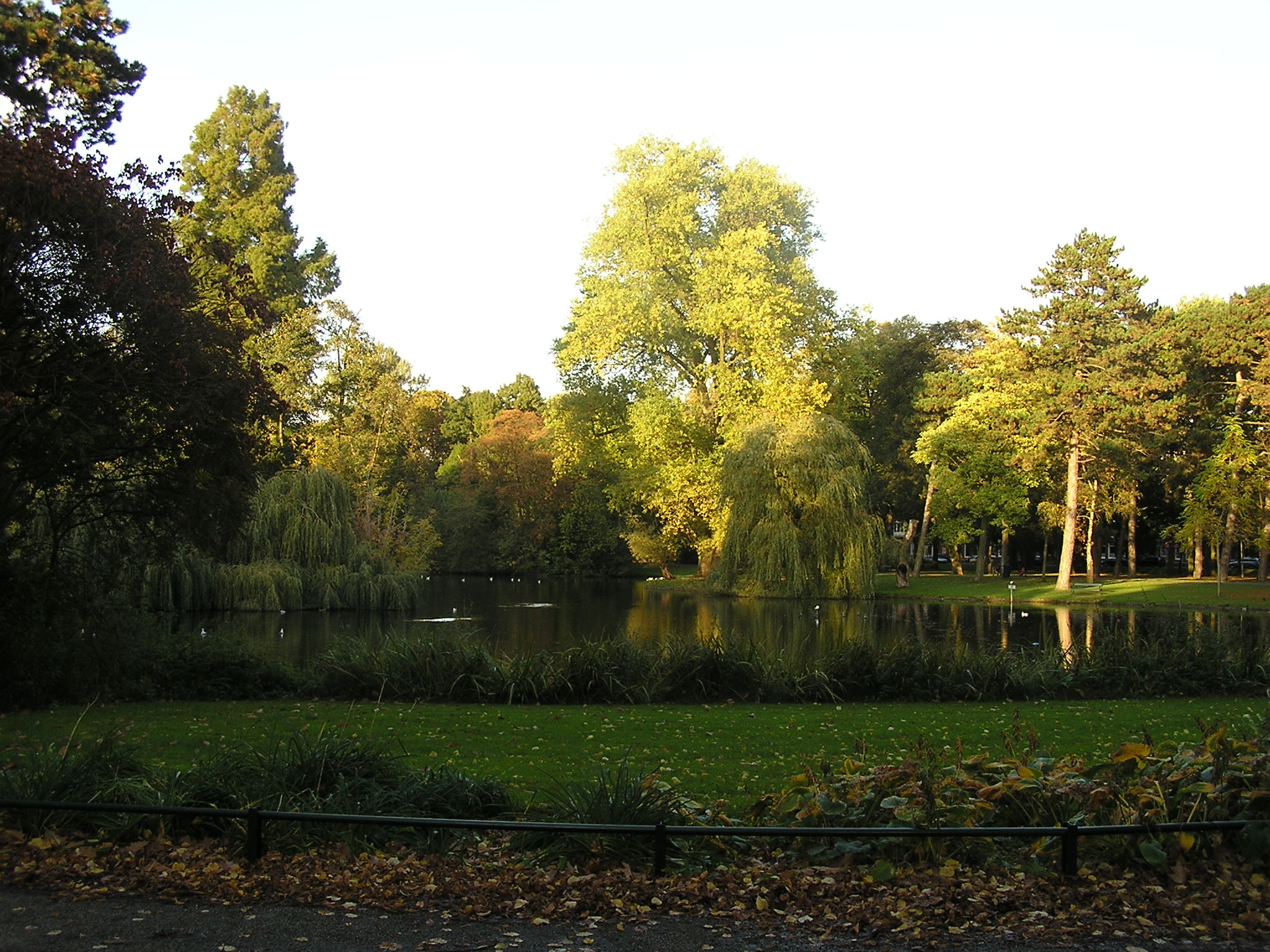 Wilhelminapark, Utrecht, The Netherlands